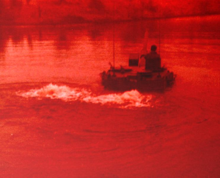 Leopard 1A2 crossing a river at night - photo made thru the drivers infrared optic